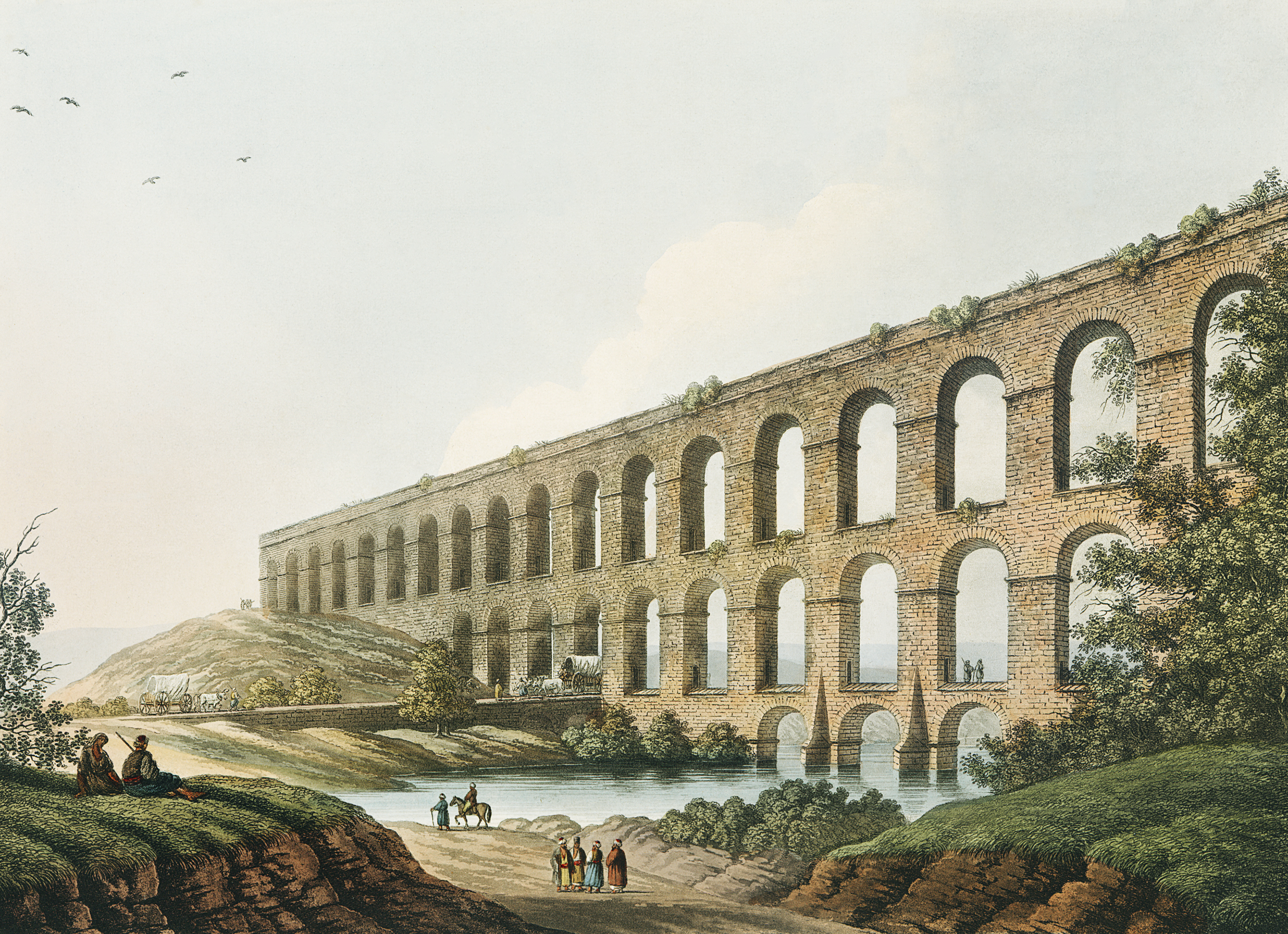 Aqueduct near Belgrade from Views in the Ottoman Dominions, in Europe, in Asia, and some of the Mediterranean islands (1810) illustrated by Luigi Mayer (1755-1803).